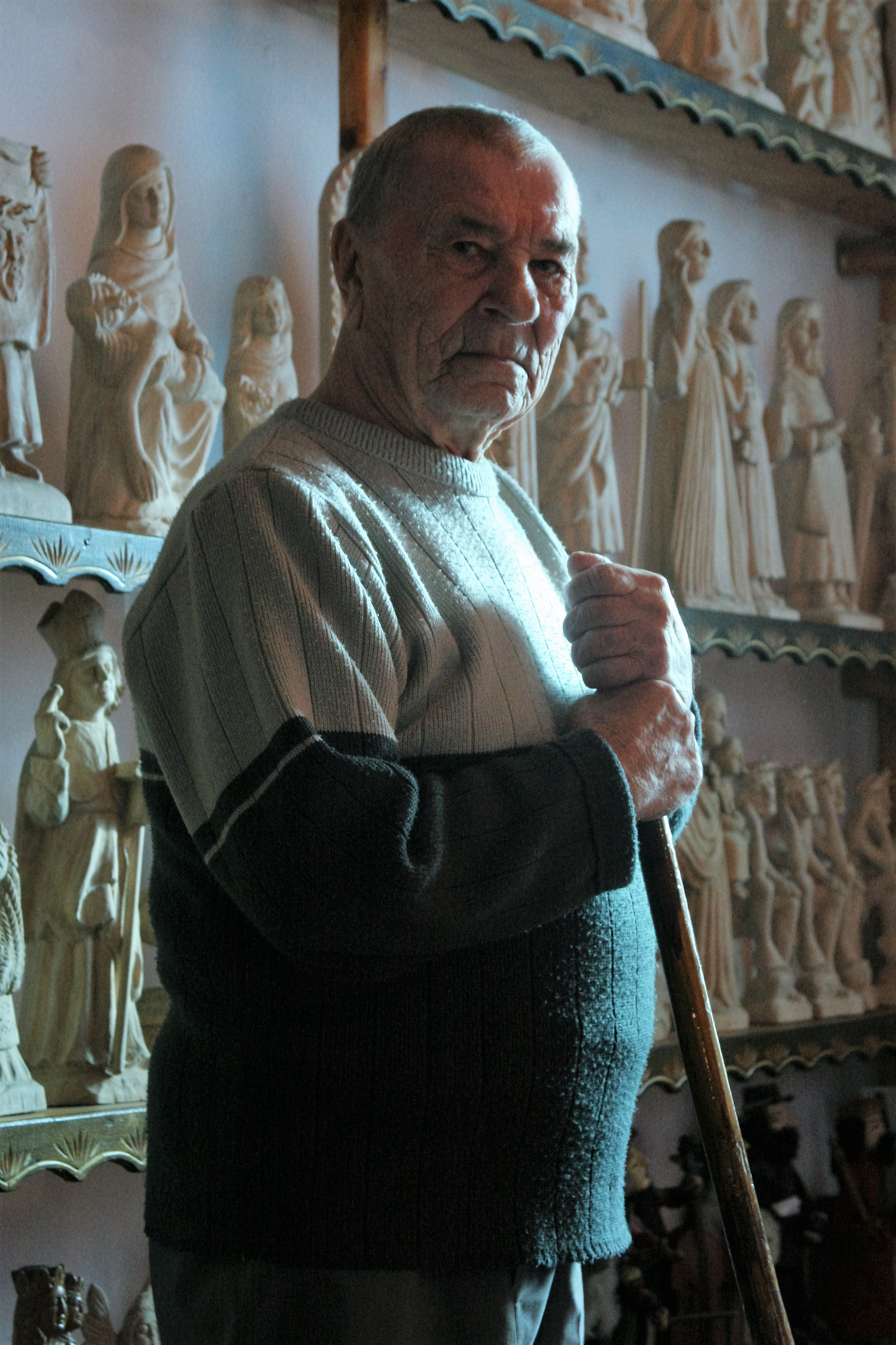 Józef Hulka, Polish folk artist, sculptor and maker of nativity scenes in his workshop in Łękawica, Zywiec Beskids Mountains, Poland